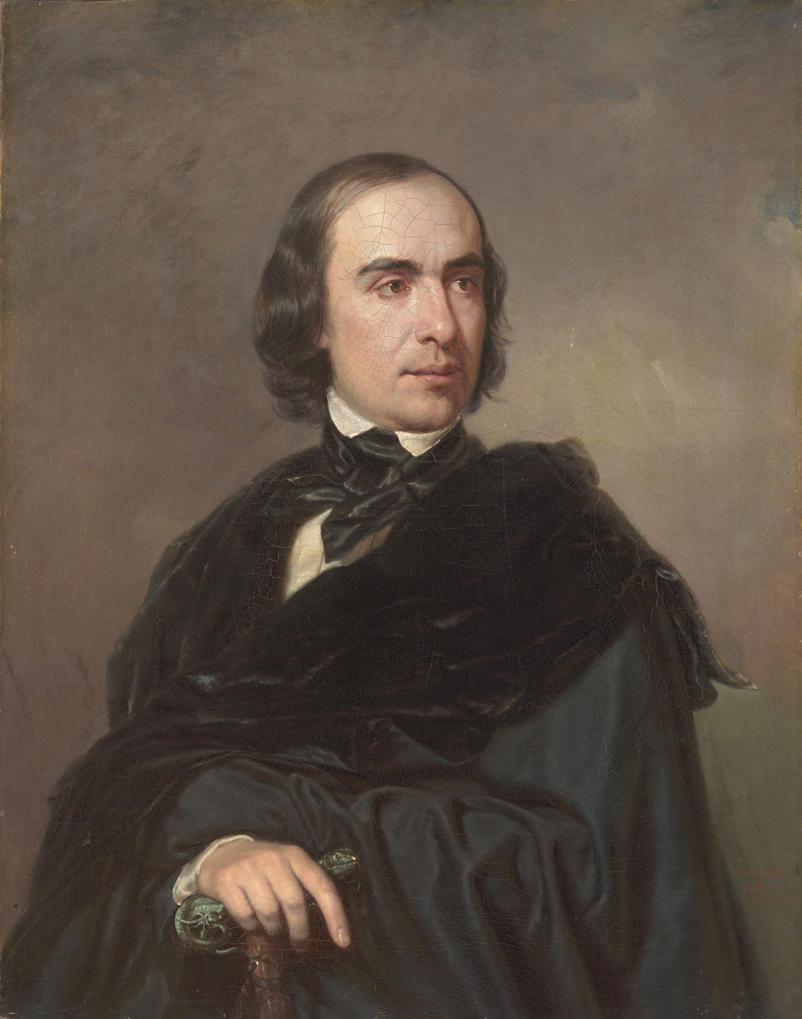 Portrait of Timofey Granovsky (1813—1855), Russian historian